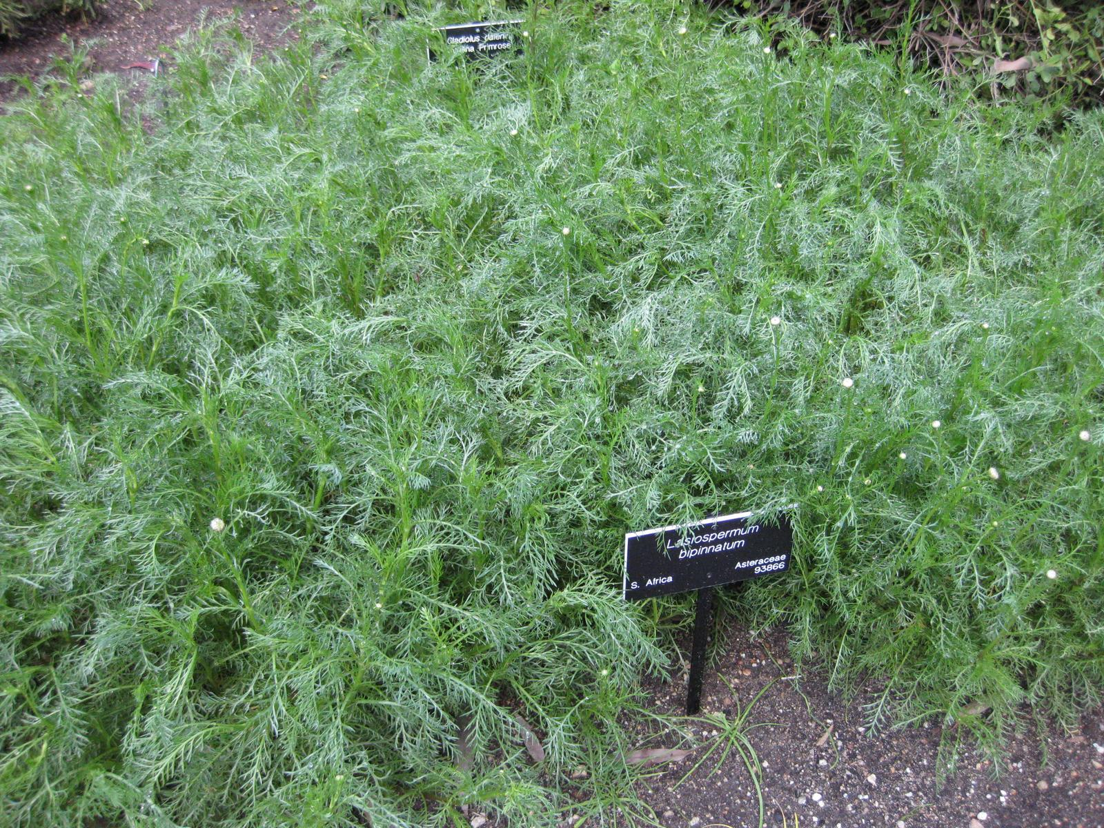 Lasiospermum bipinnatum photographed at Huntington Gardens (Los Angeles) in March